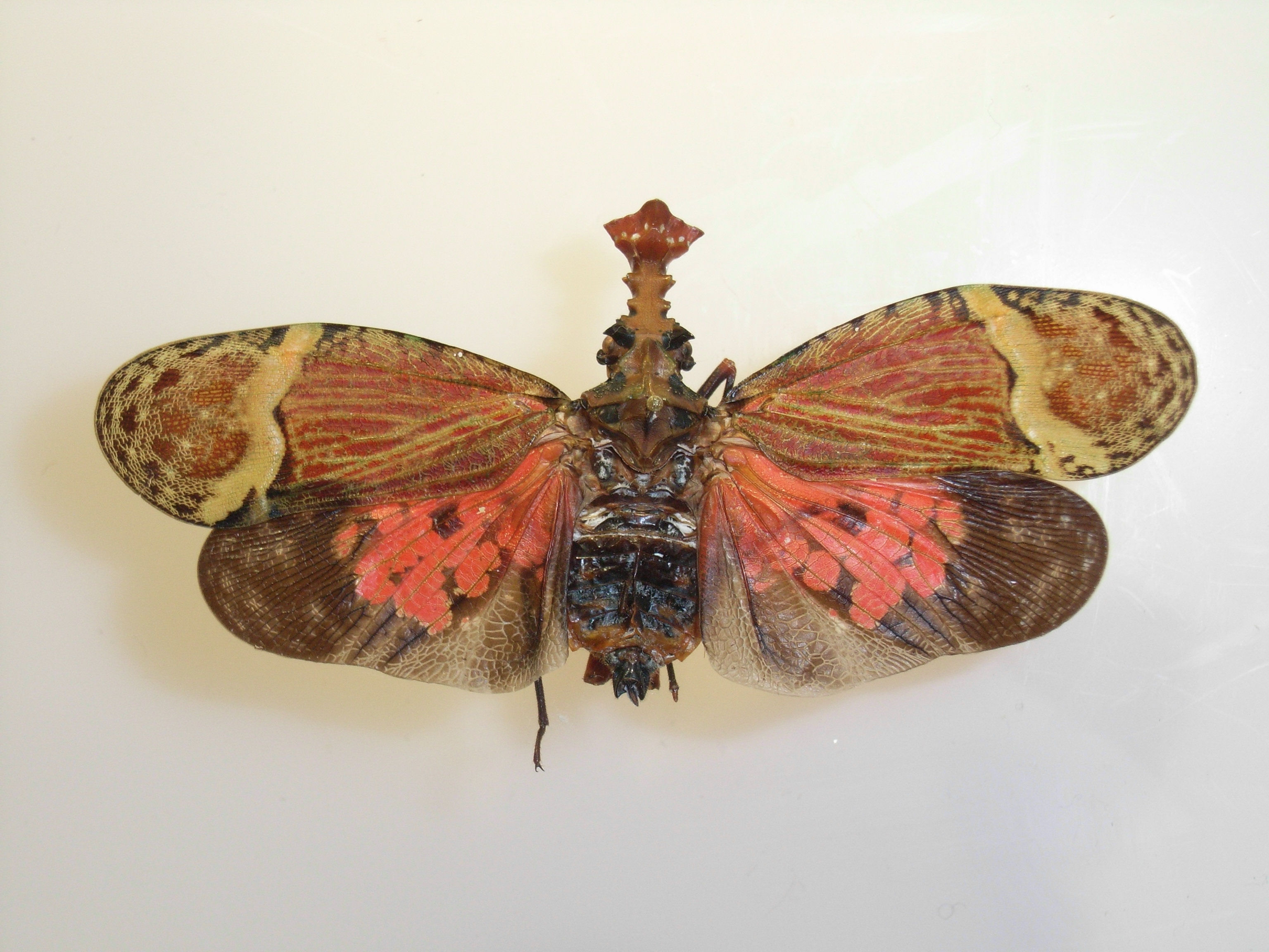 Phrictus tripartitus Ex coll. Felix Stumpe